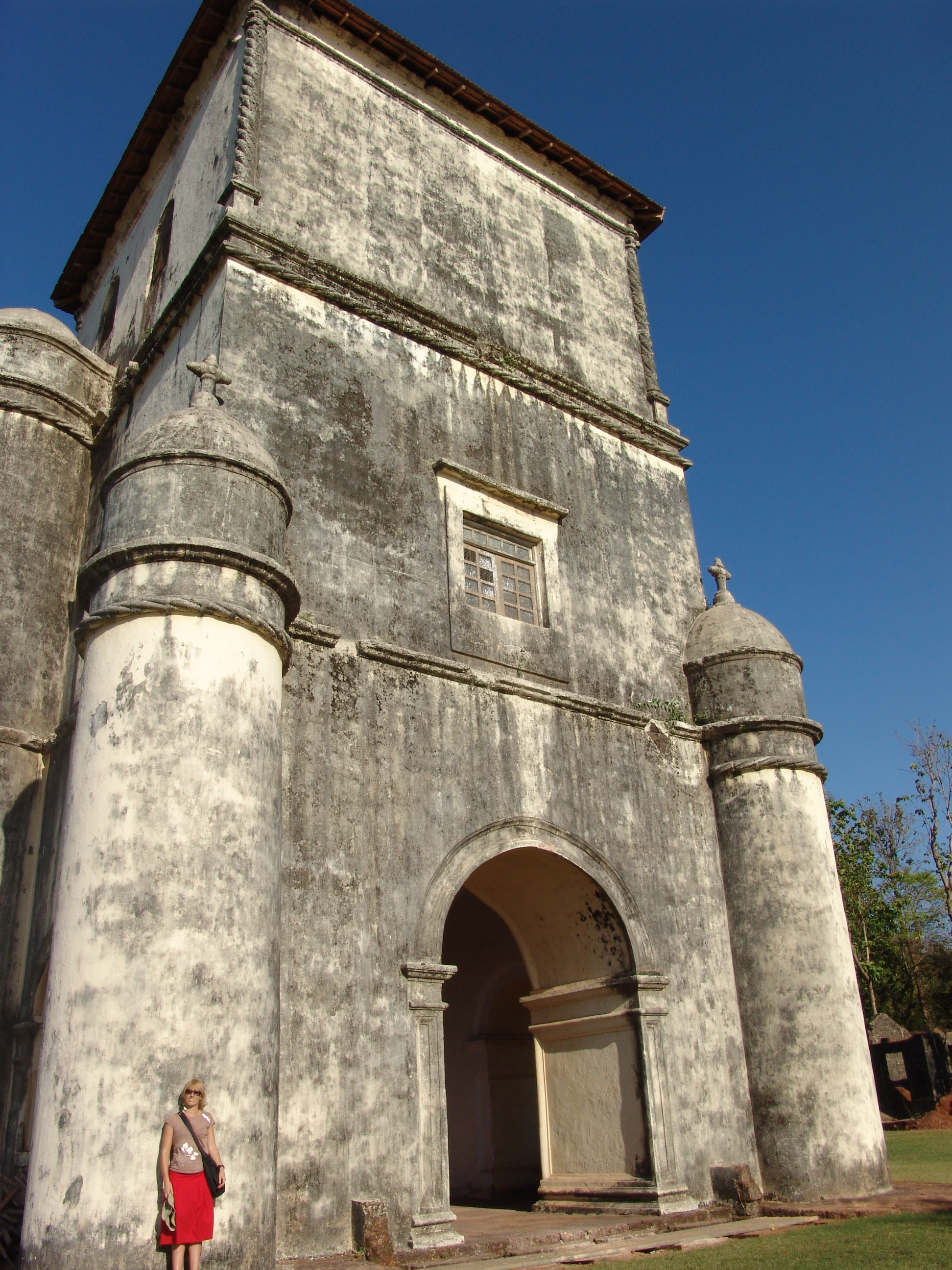 Rosario Church in Goa, India